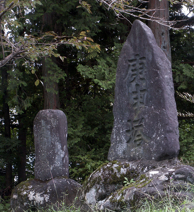 The stone with the inscription is a kosinto located in Nikko, Tochigi Prefecture, Japan. Kōshintō are memorial monuments of local meetings of a folk belief in the Edo Period. They wished longevity, health, security and so on.